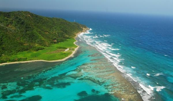 Beautiful Guanaja Honduras, one of the bay islands off the north coast in the Caribbean